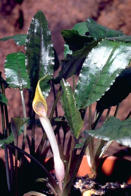 Cryptocoryne becketii in emerse culture.